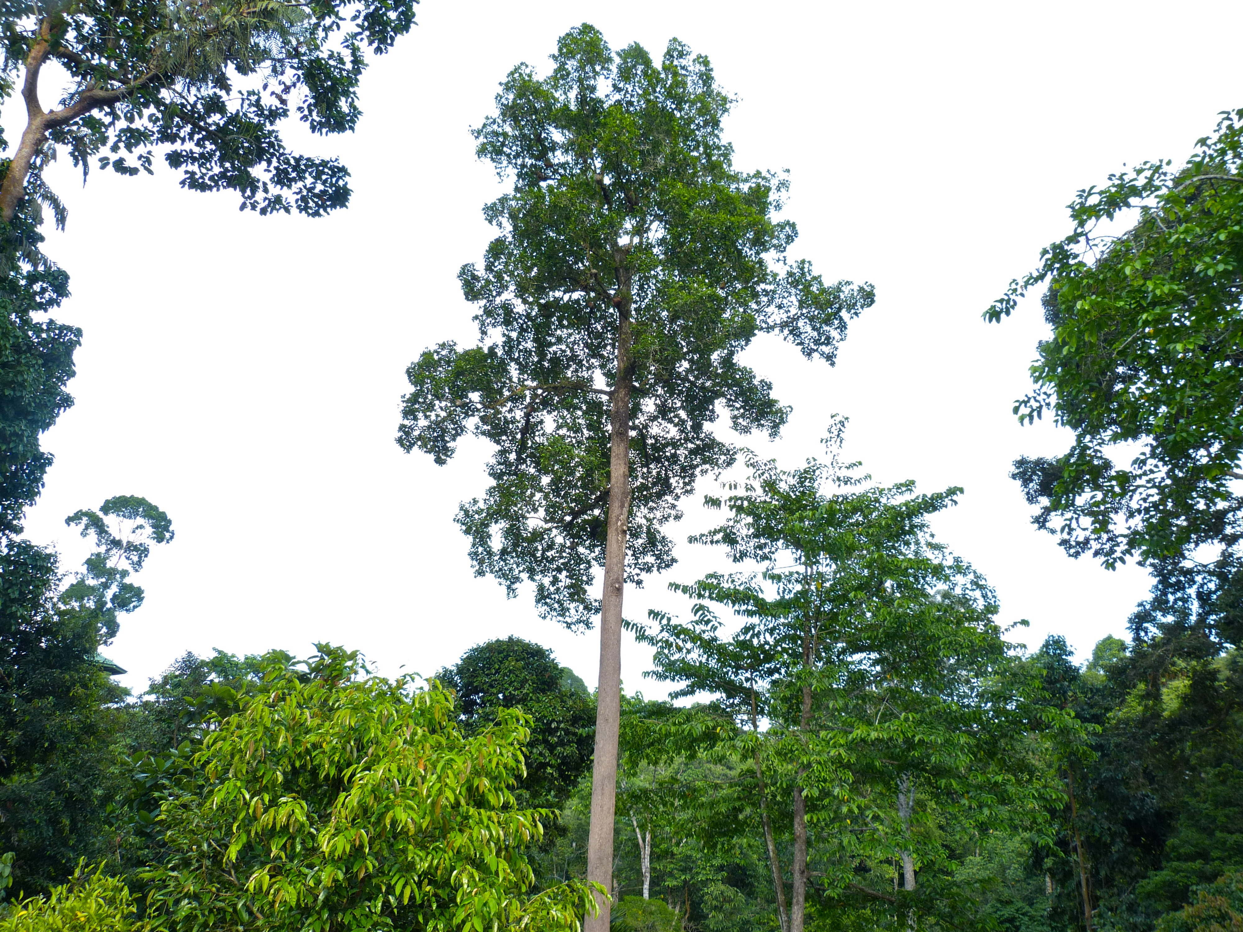 Rainforest Discovery Center, Sepilok, Sabah, MALAYSIA